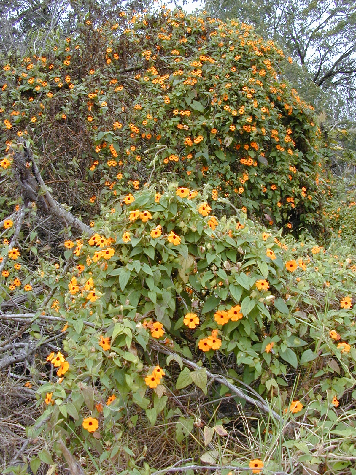 Thunbergia alata (flowering habit). Location: Maui, Kula